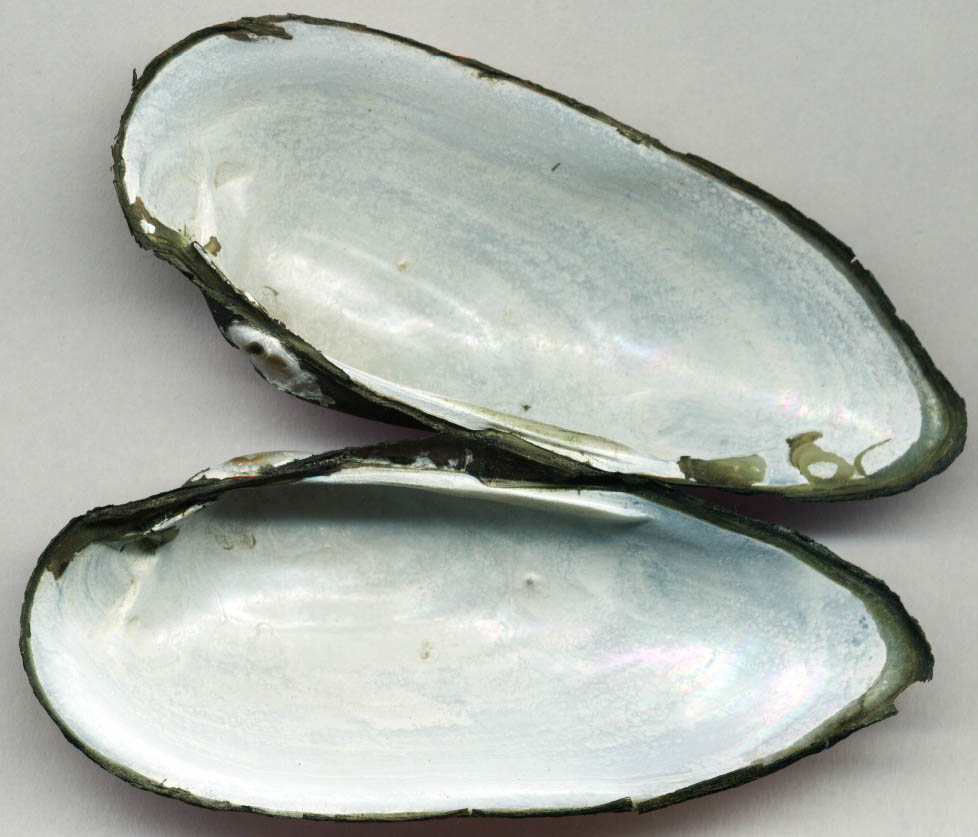 photo of a shell of Unio pictorum